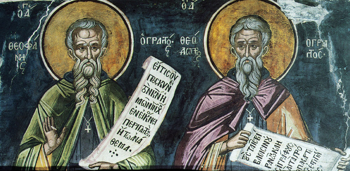 Saints Theodore and Theophanes the Branded. Written in 1547, Dionysiou Monastery, Athos